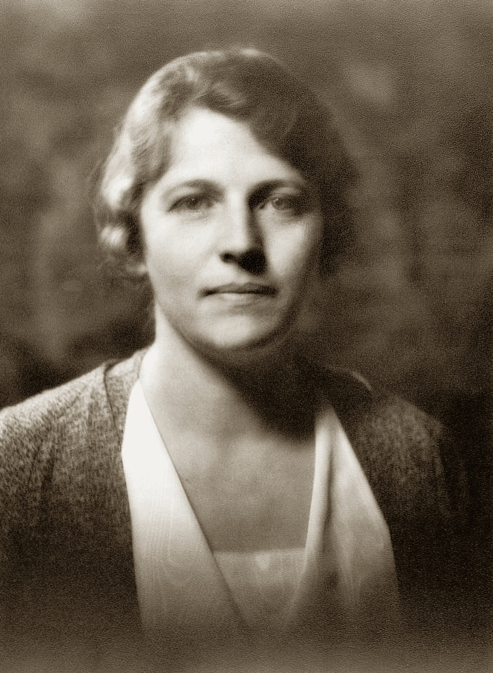 Pearl S. Buck — Pulitzer and Nobel Prize-winning American author, in 1932.